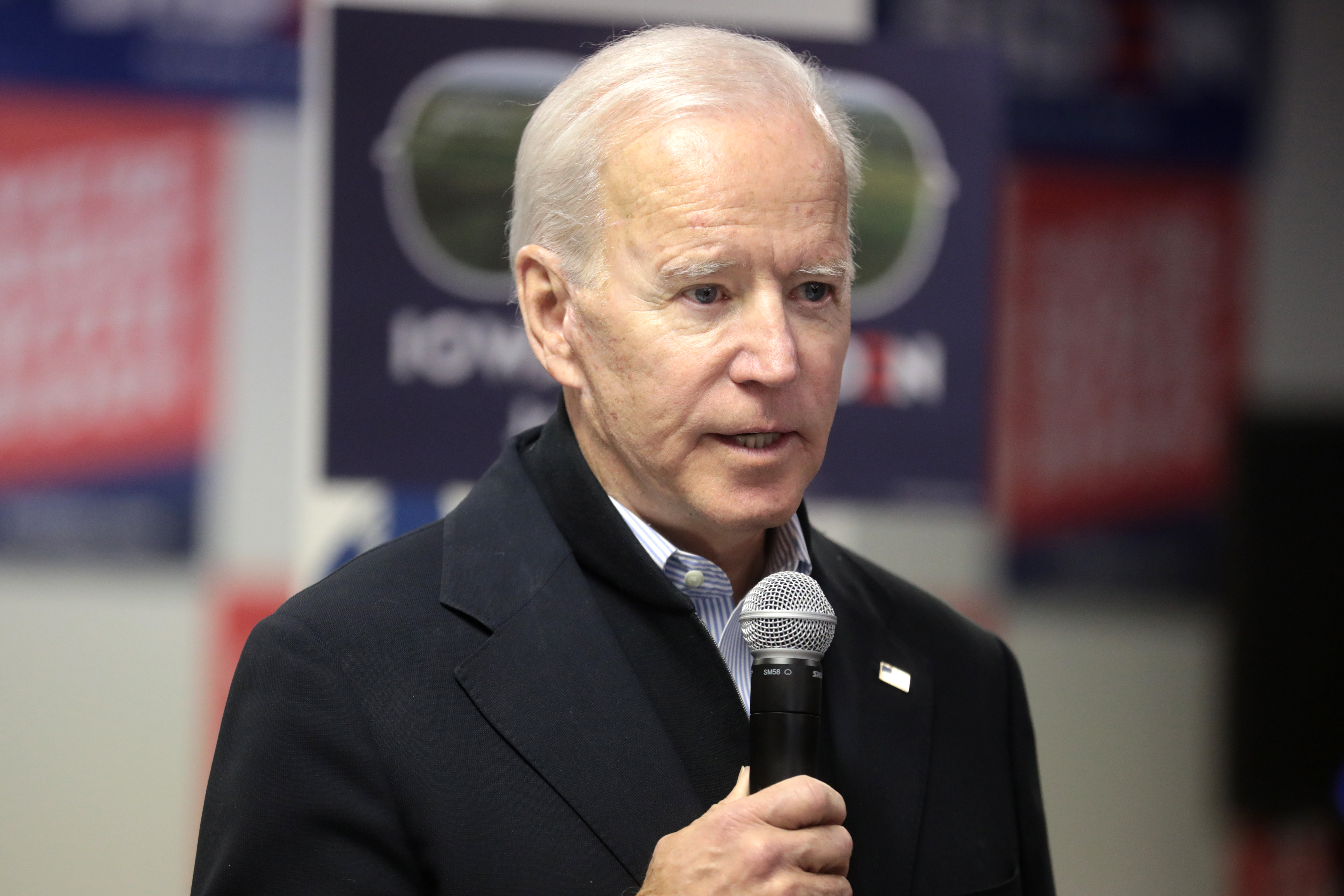 Former Vice President of the United States Joe Biden speaking with supporters at a phone bank at his presidential campaign office in Des Moines, Iowa.